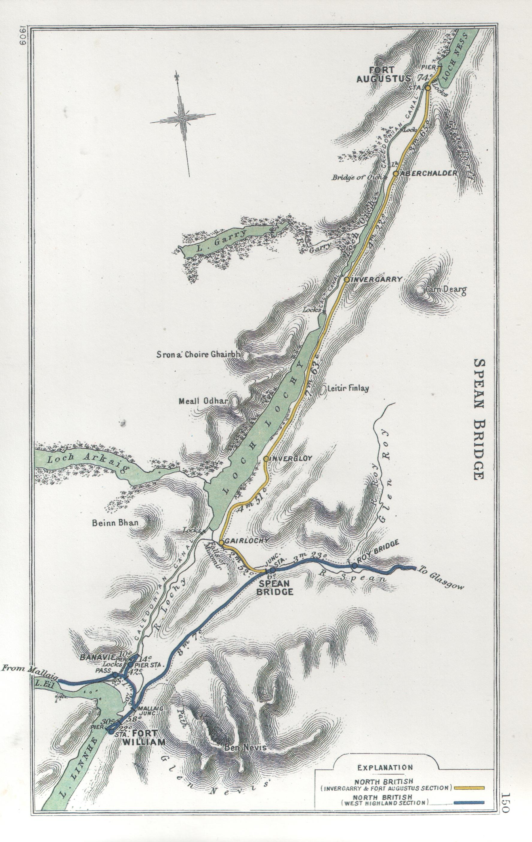 Railway Junctions in Spean Bridge pre grouping